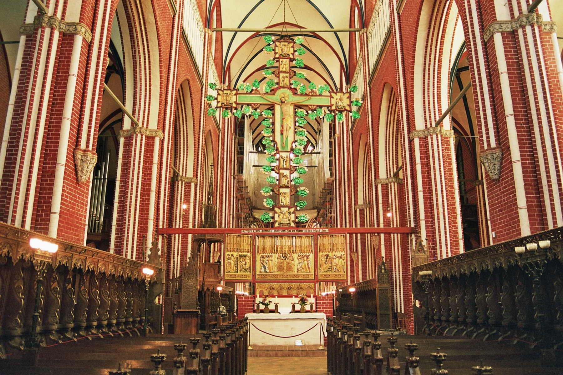 This image shows the crucifix-altar in the Doberan Minster in Bad Doberan in Mecklenburg-Vorpommern, Germany. The altar was made around 1360/70.